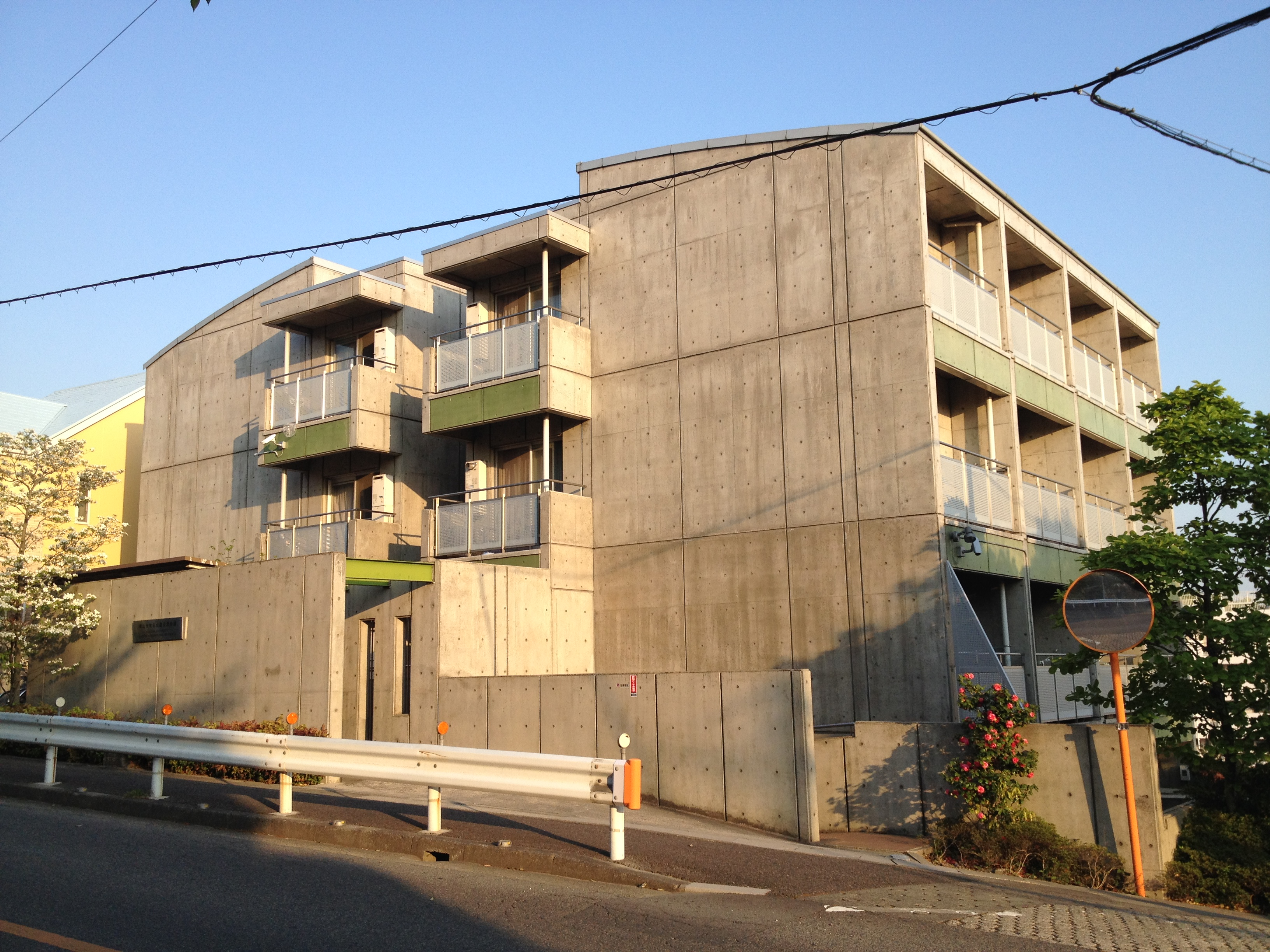 International Student House of Nanzan University, Nagoya, central Japan.